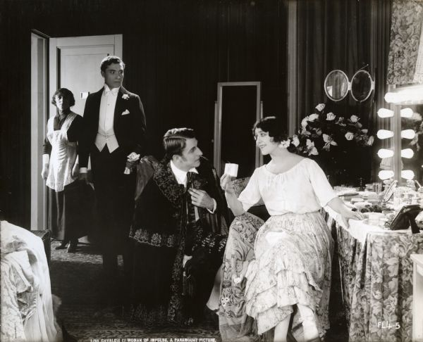 In a scene still from the American drama film A Woman of Impulse (1918), Leonora, the opera singer known as "La Vecci" (played by Lina Cavalieri) sits in her backstage dressing room receiving visitors. She holds a small gift box that Count Nerval (Raymond Bloomer, on one knee wearing a richly decorated Spanish cape) has just given her. Behind them, looking incensed is Nerval's cousin Phillip Gardiner (Robert Cain, in evening dress). At the door behind him is Leonora's maid (Corene Uzzell).